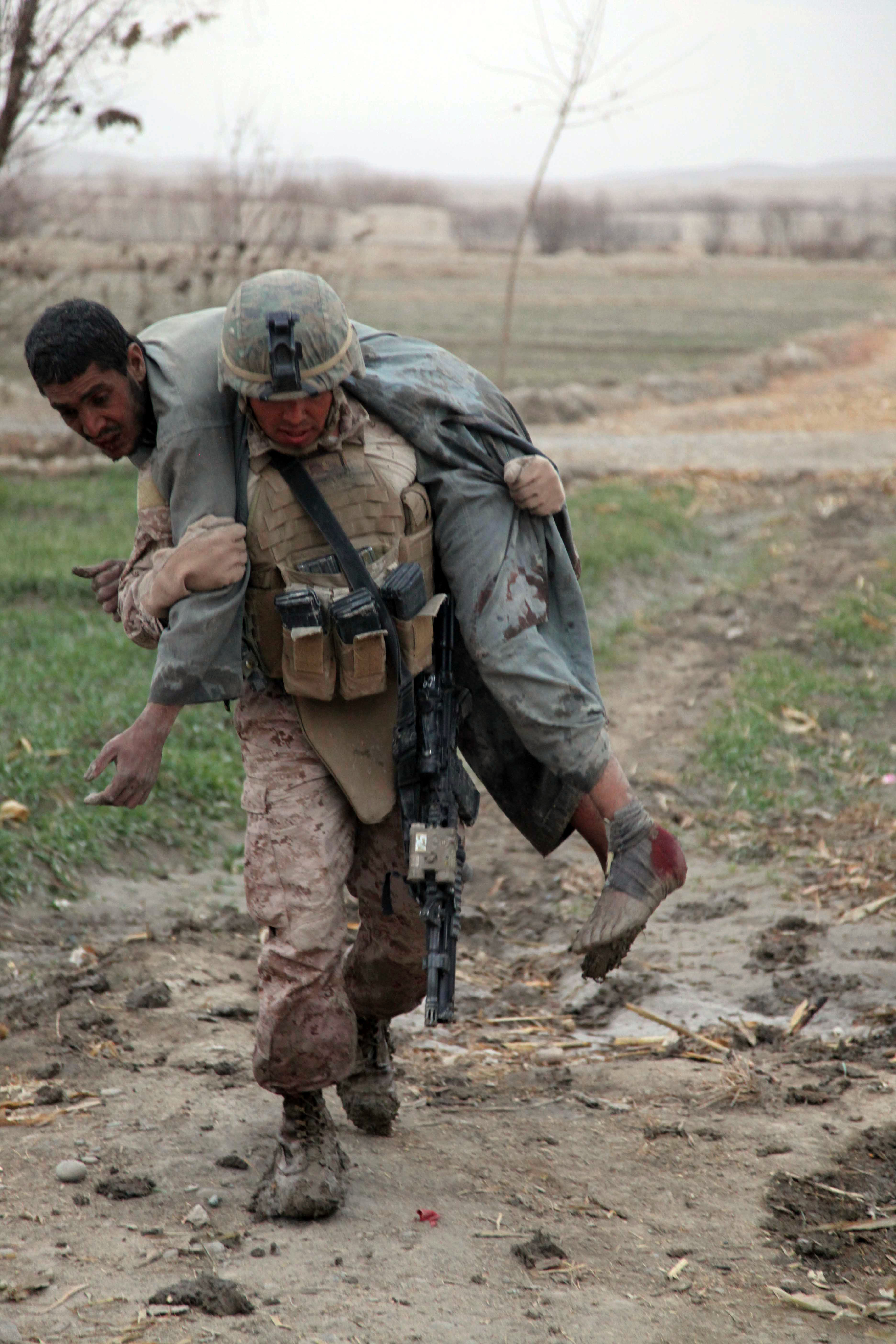 U.S. Marine Corps Cpl. Jose Aguilarmendez, a machine gun team leader with 1st Platoon, Kilo Company, 3rd Battalion, 5th Marine Regiment, Regimental Combat Team 2, carries an Afghan that was injured by an improvised explosive device during a security patrol in Sangin district, Helmand province, Afghanistan, on Jan. 12, 2011. Marines conducted security patrols to decrease insurgency and gain the trust of the local population. The battalion was one of the combat elements of Regimental Combat Team 2, which conducted counterinsurgency operations in partnership with the International Security Assistance Forces.